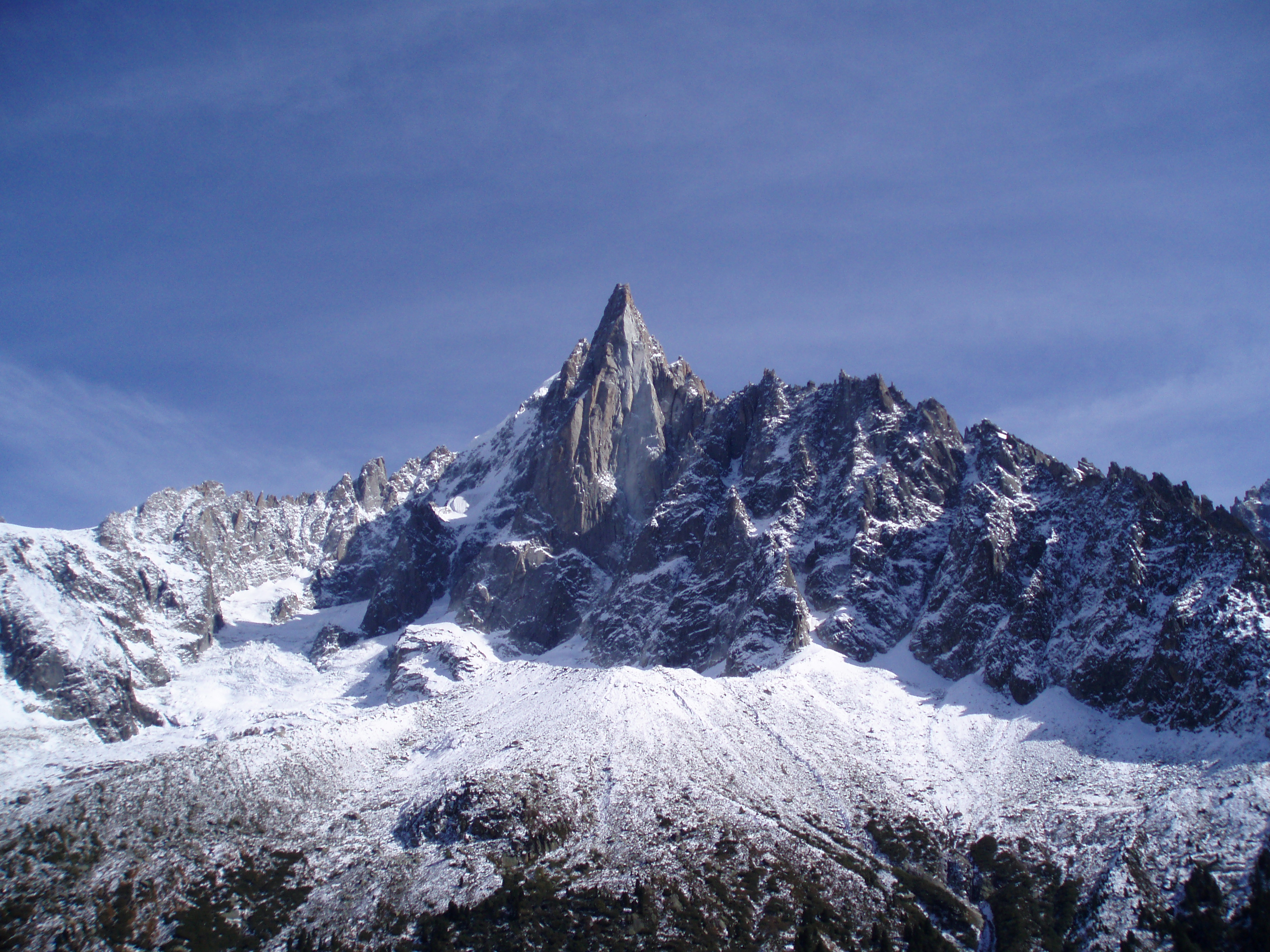 Aiguille du Dru. Again, not sure where this was taken from, the top of a mountain somewhere..